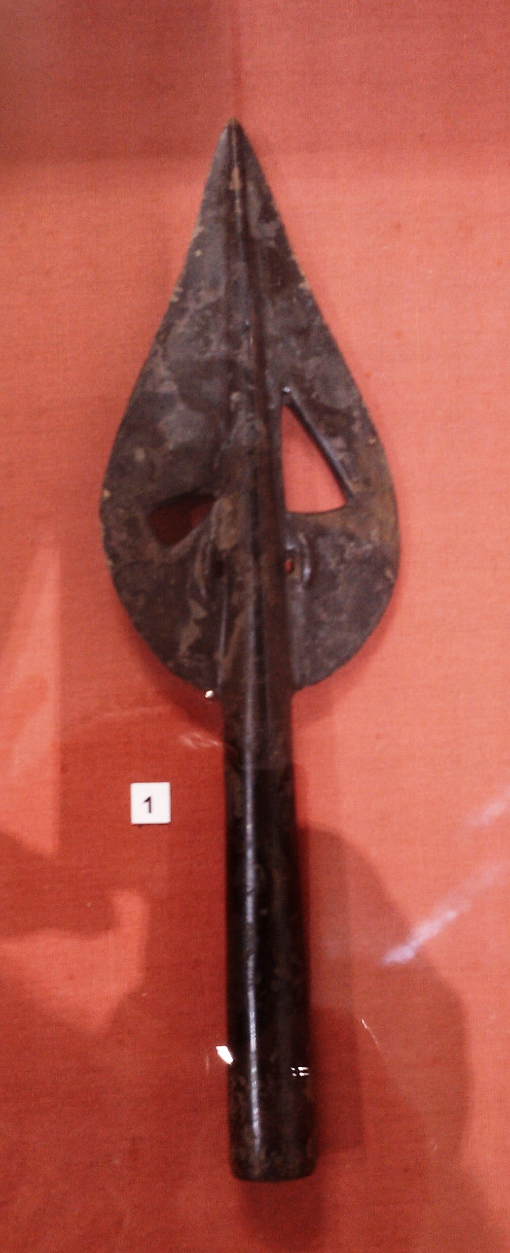 Spearhead from Shardlow quarry which is of irish design - decorative use only. Found at same place as Hanson Log boat but not from same time